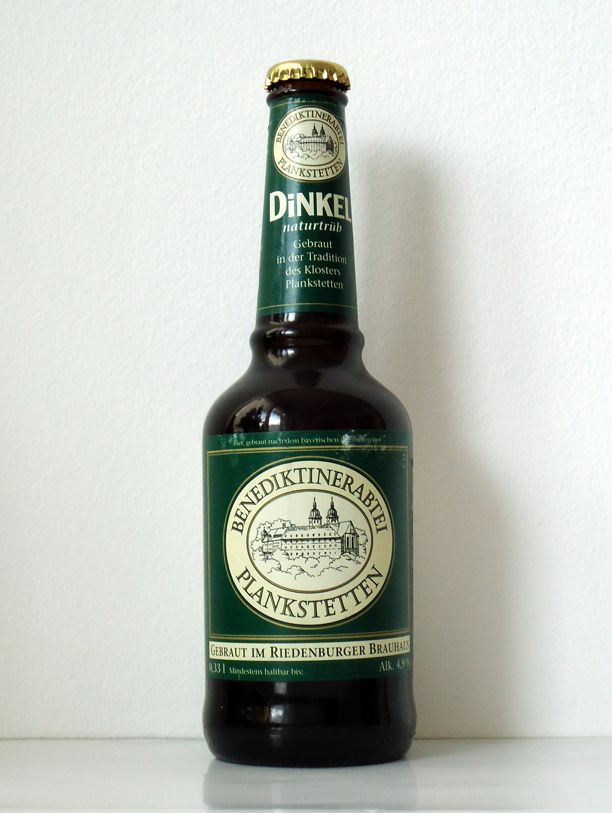 Plankstetten Dinkel bio beer